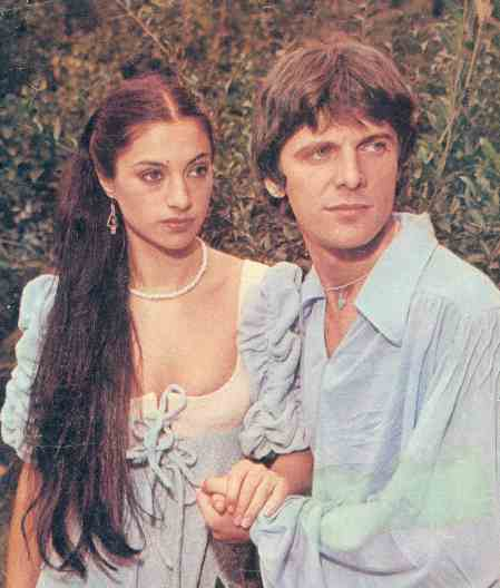 Athina Papadimitriu and László Pelsőczy (Romeo and Juliet in 1978).